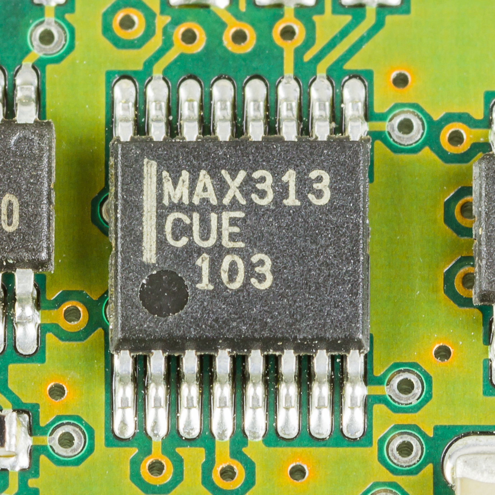 Siemens NTBBA 40 183 340-100 - Maxim MAX313CUE - 10 Ω, Quad, SPST, CMOS Analog Switches. Package: 16 TSSOP